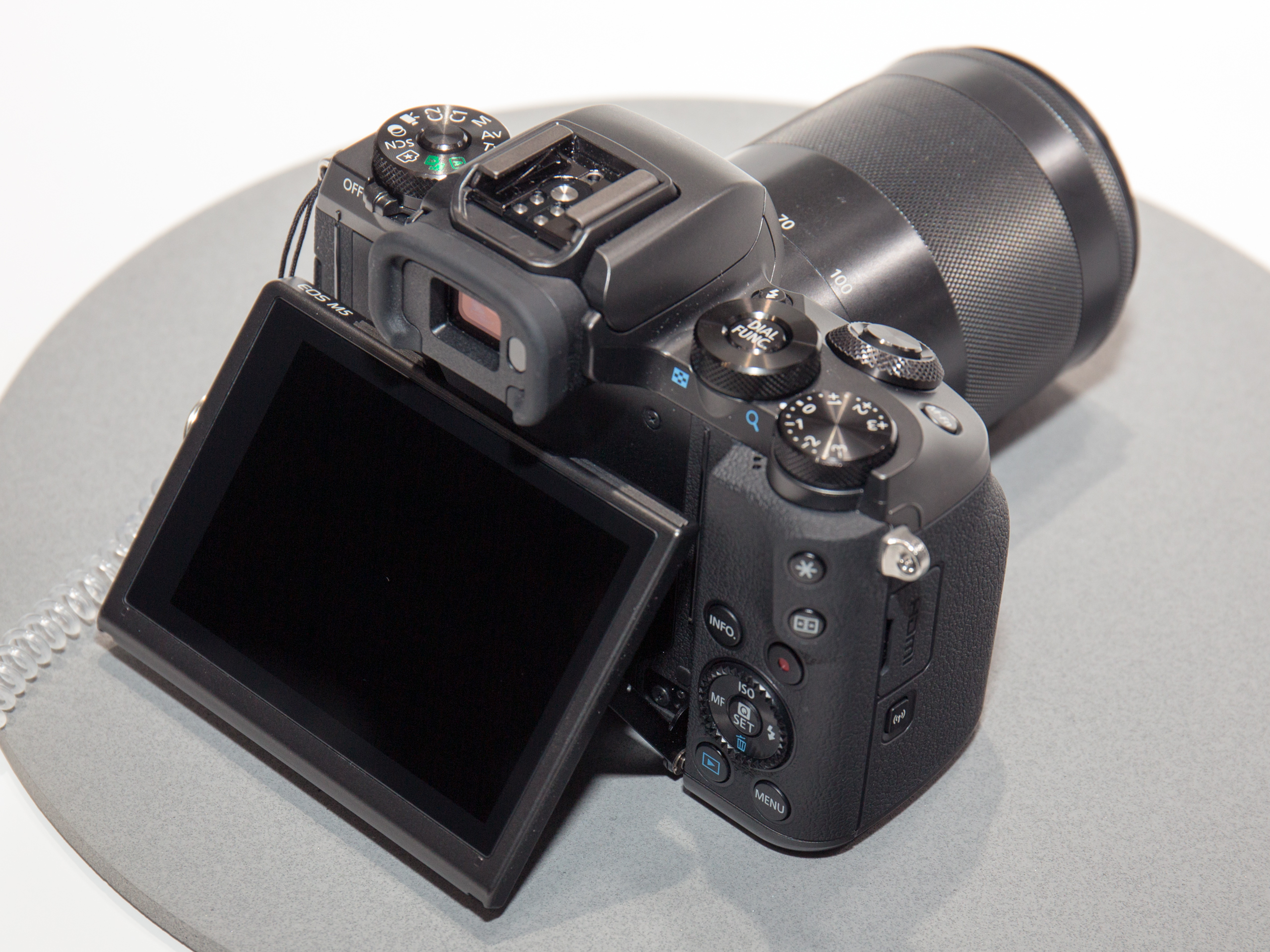 CP+ 2017: 2016 Canon EOS M5